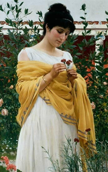 Chloris